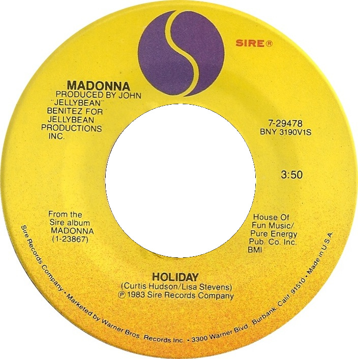 A-side label of the U.S. vinyl release of "Holiday" by Madonna